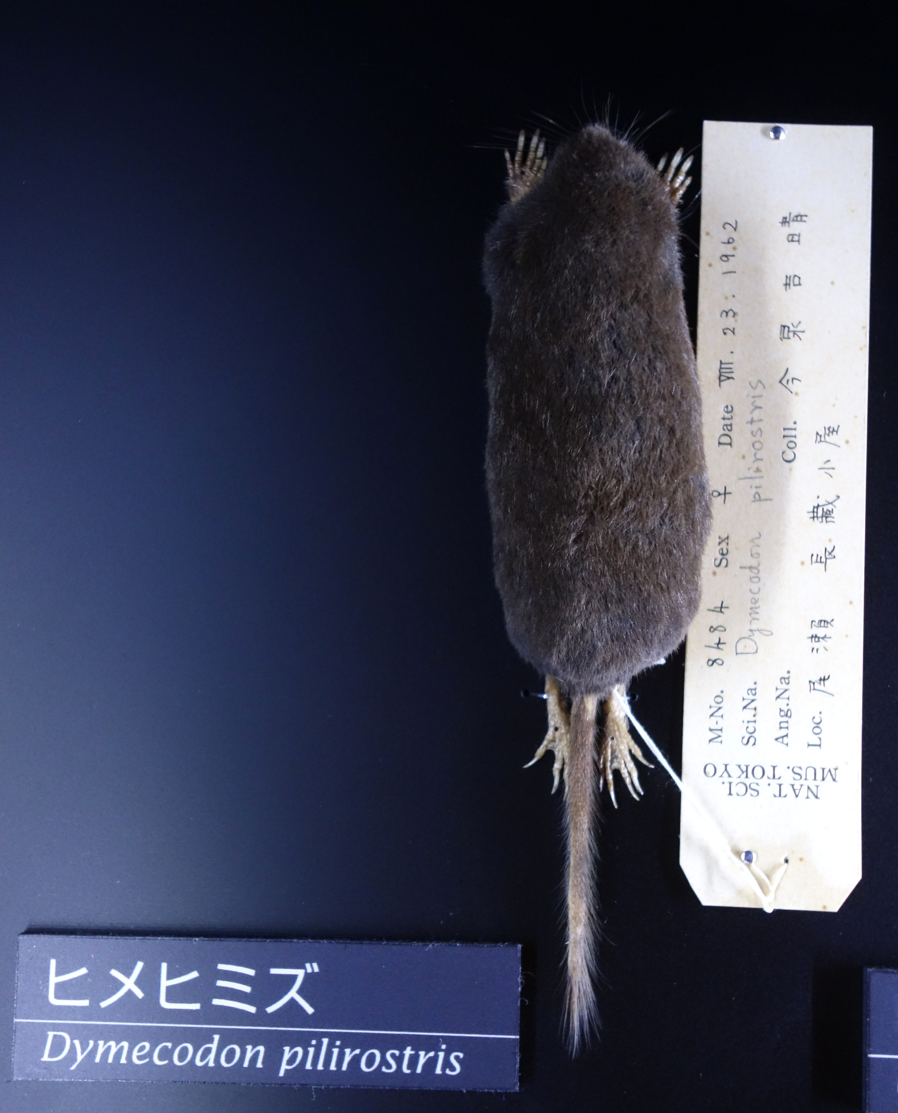 Exhibit in the National Museum of Nature and Science, Tokyo, Japan.